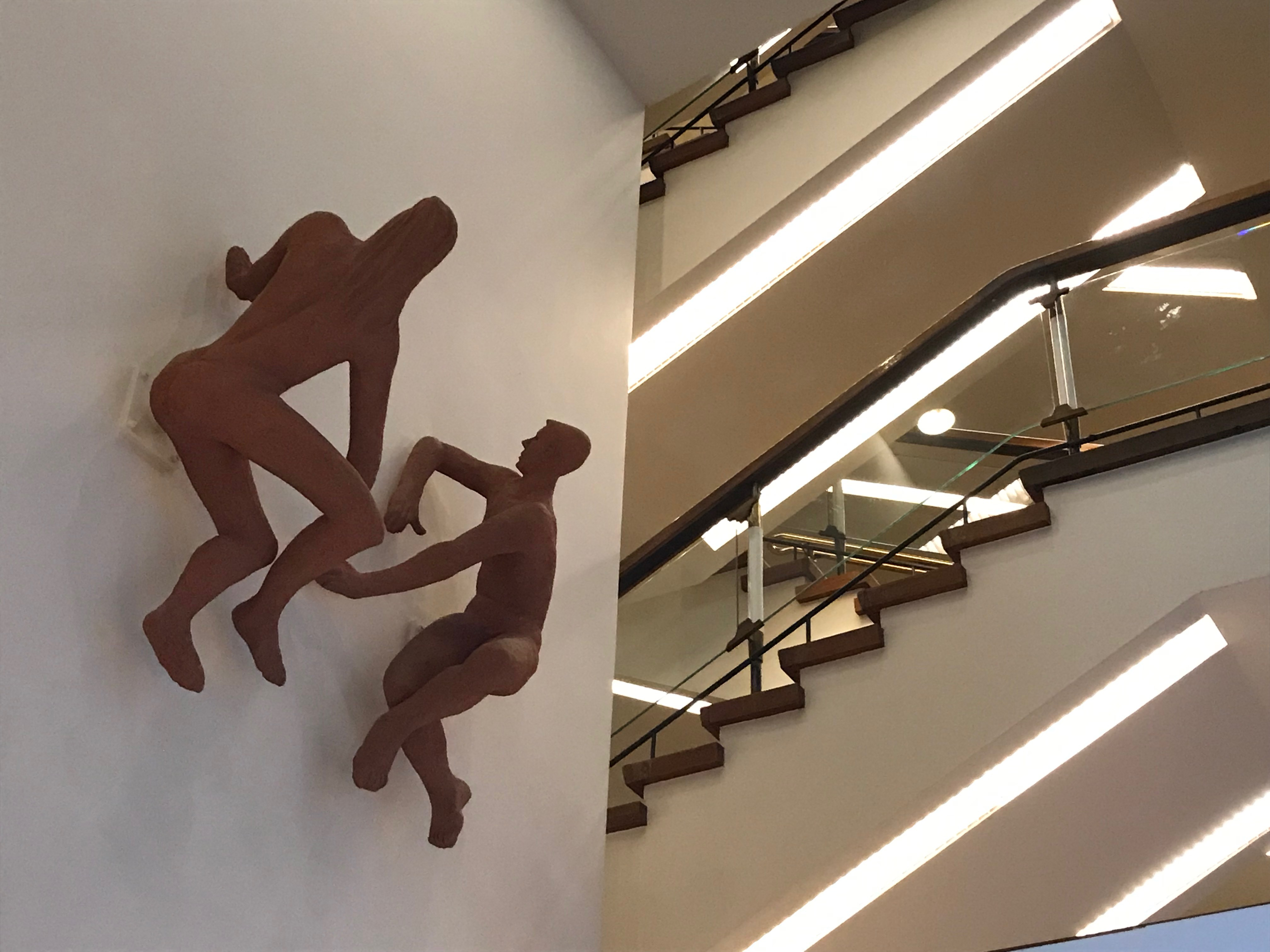 The Sunbathers (1951) by Peter Laszlo Peri, Southbank Centre, London